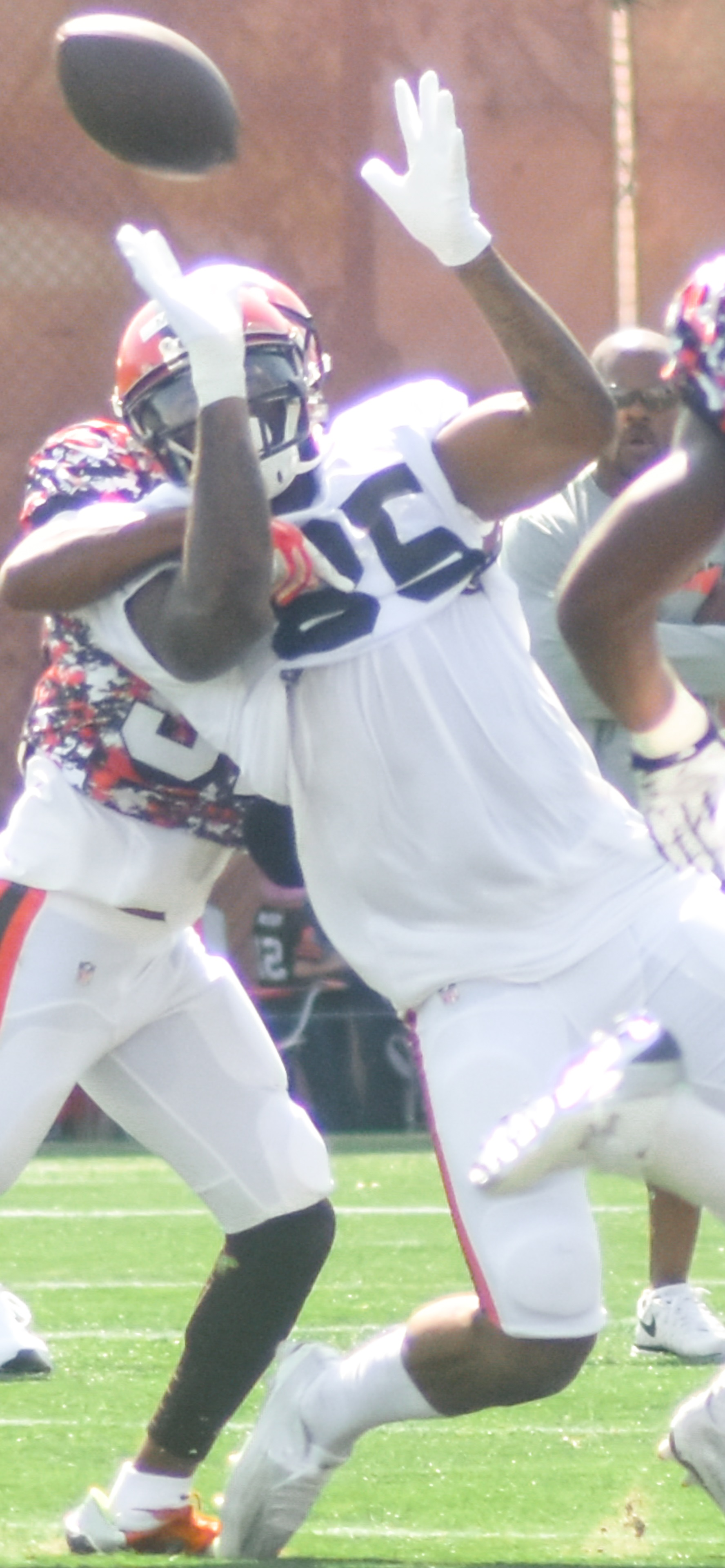 Mayle in 2015